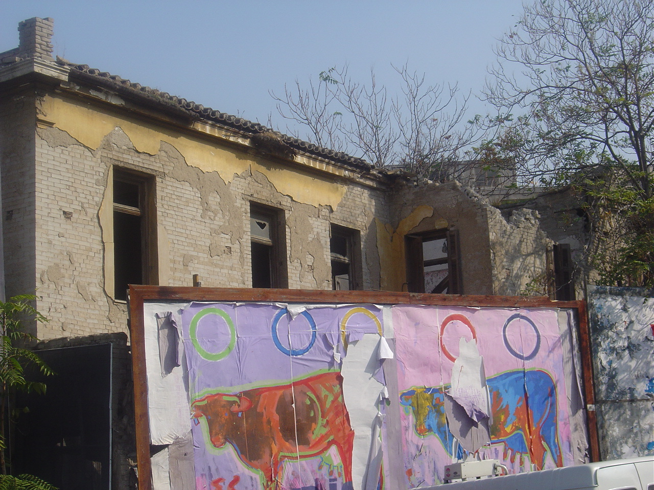 Komoundouros mansion in Athens, Greece